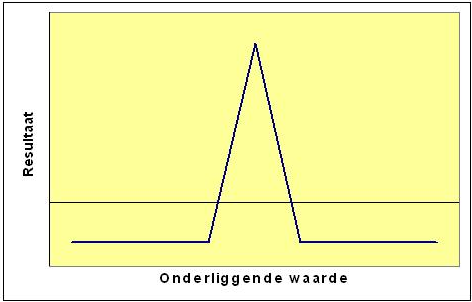 butterfly option strategy